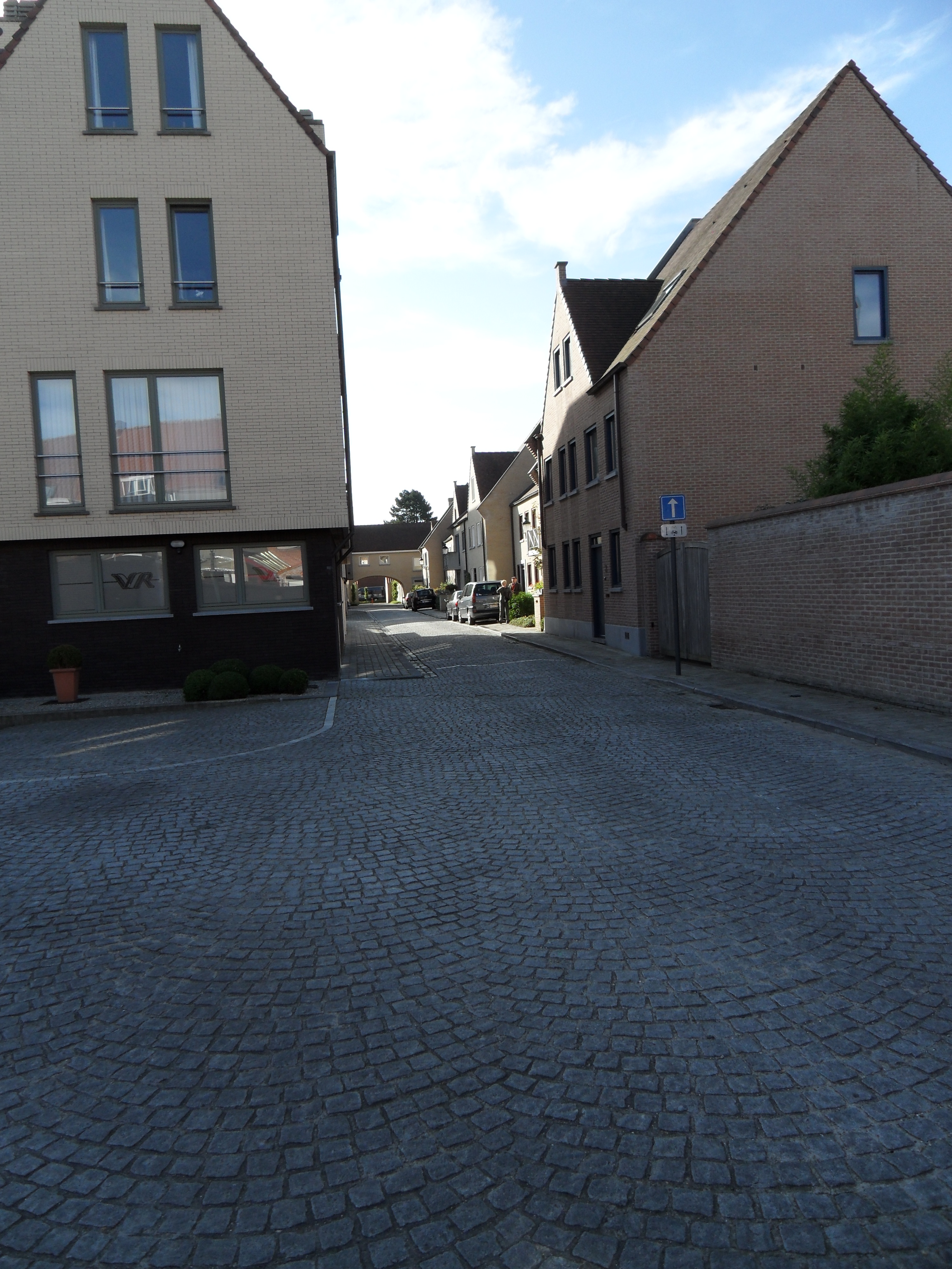 Willem De Dekenstraat in Bruges